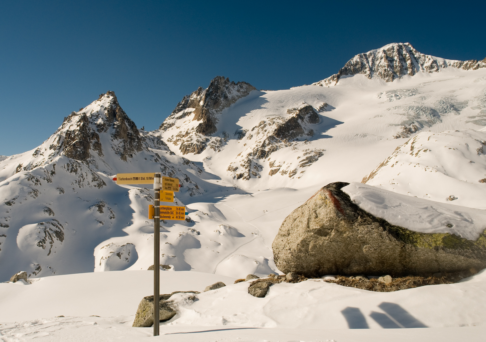 From right to left: Galenstock, Gross Bielenhorn, and Chli Bielenhorn, as seen from the Albert Heim Hut